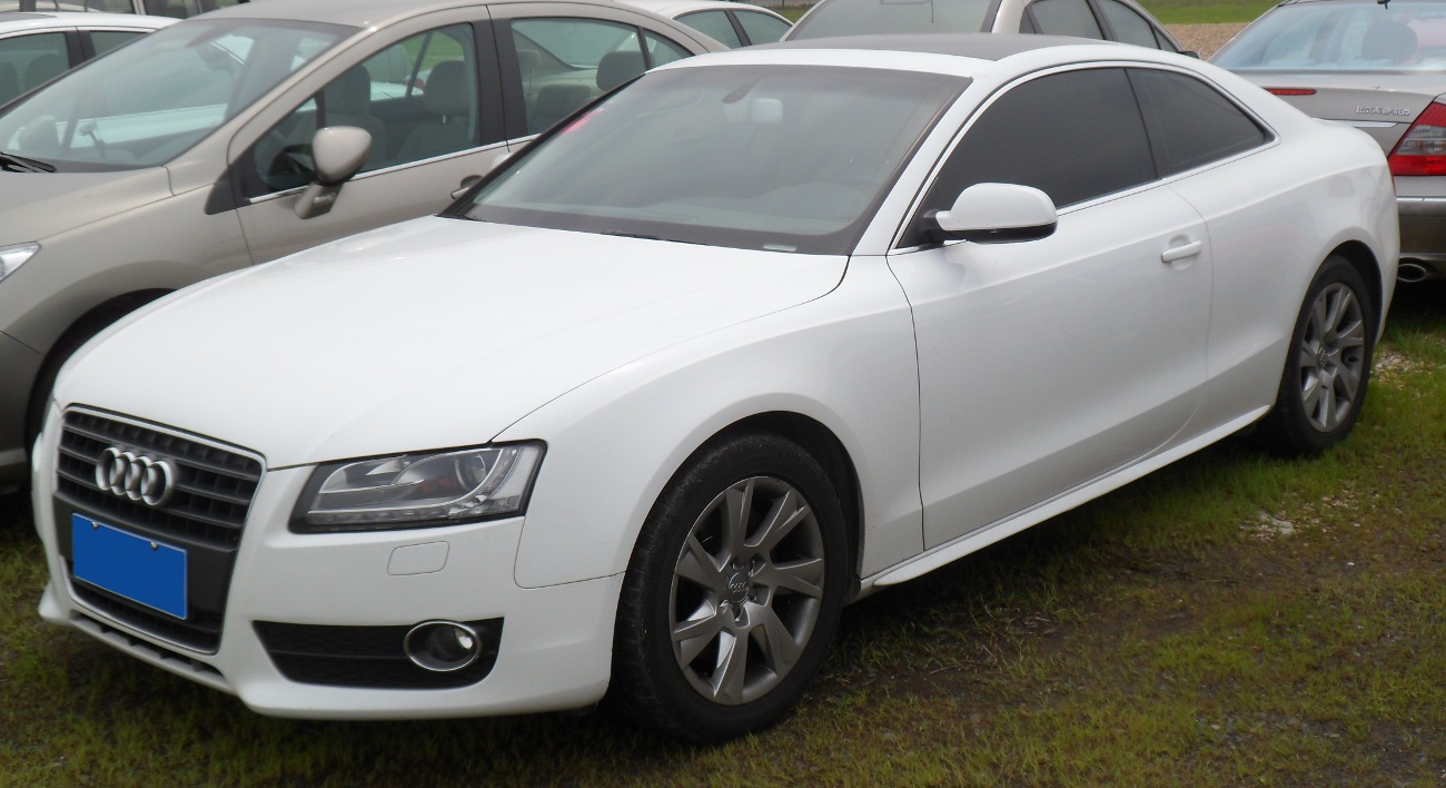 Audi A5 8T photographed in Anting, Shanghai municipality, China.